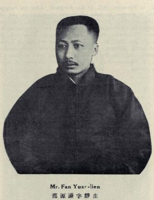 Fan Yuanlian, Jingsheng (1874 - 1927)